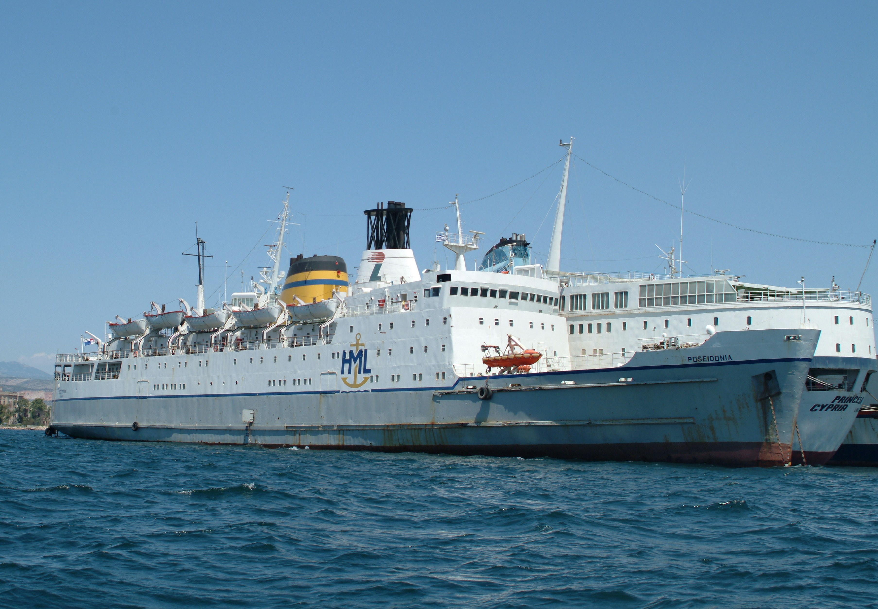 The ferry Poseidonia in Eleusis on June 21, 2004.